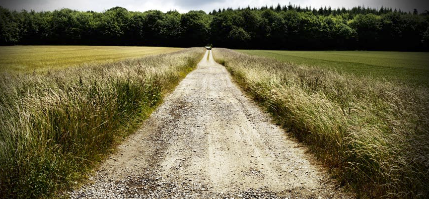 Running path on the Shaftesbury Estates, Wimborne St Giles, Dorset, England; home of the Earls of Shaftesbury; running path used during the Great Shaftesbury Run